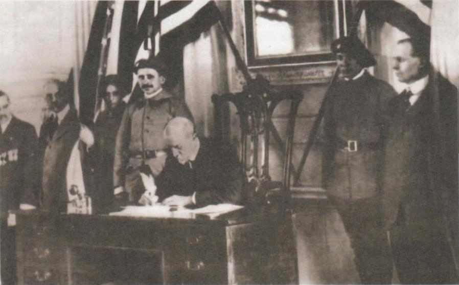 Tomáš Garrigue Masaryk, first Czechoslovakian president, signing the declaration of Czechoslovakian independence in Philadelphia